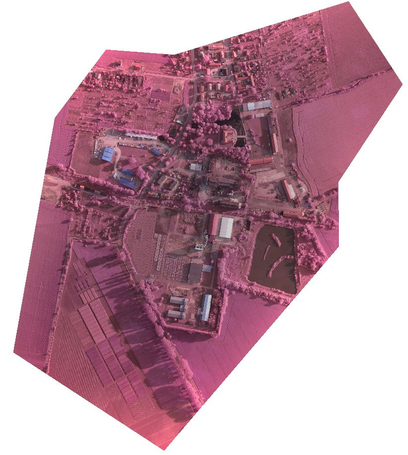 Full Spectrum Geo-Referenced Orthomosaic (RGB+NIR) processed by DroneMapper obtained with Pteryx UAV